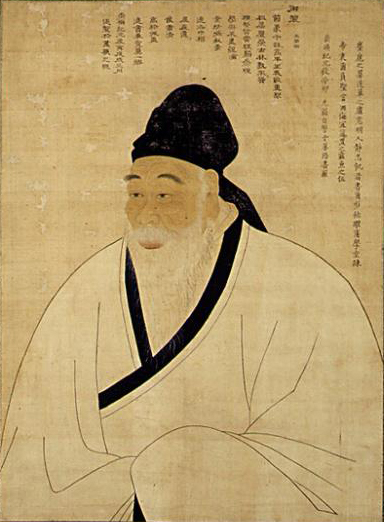 Portrait of Song Si-Yeol. He was a leading Confucianist of the mid Joseon Dynasty. This piece is designated as the 239th National Treasure of Korea and held by National Museum of Korea. Seoul.